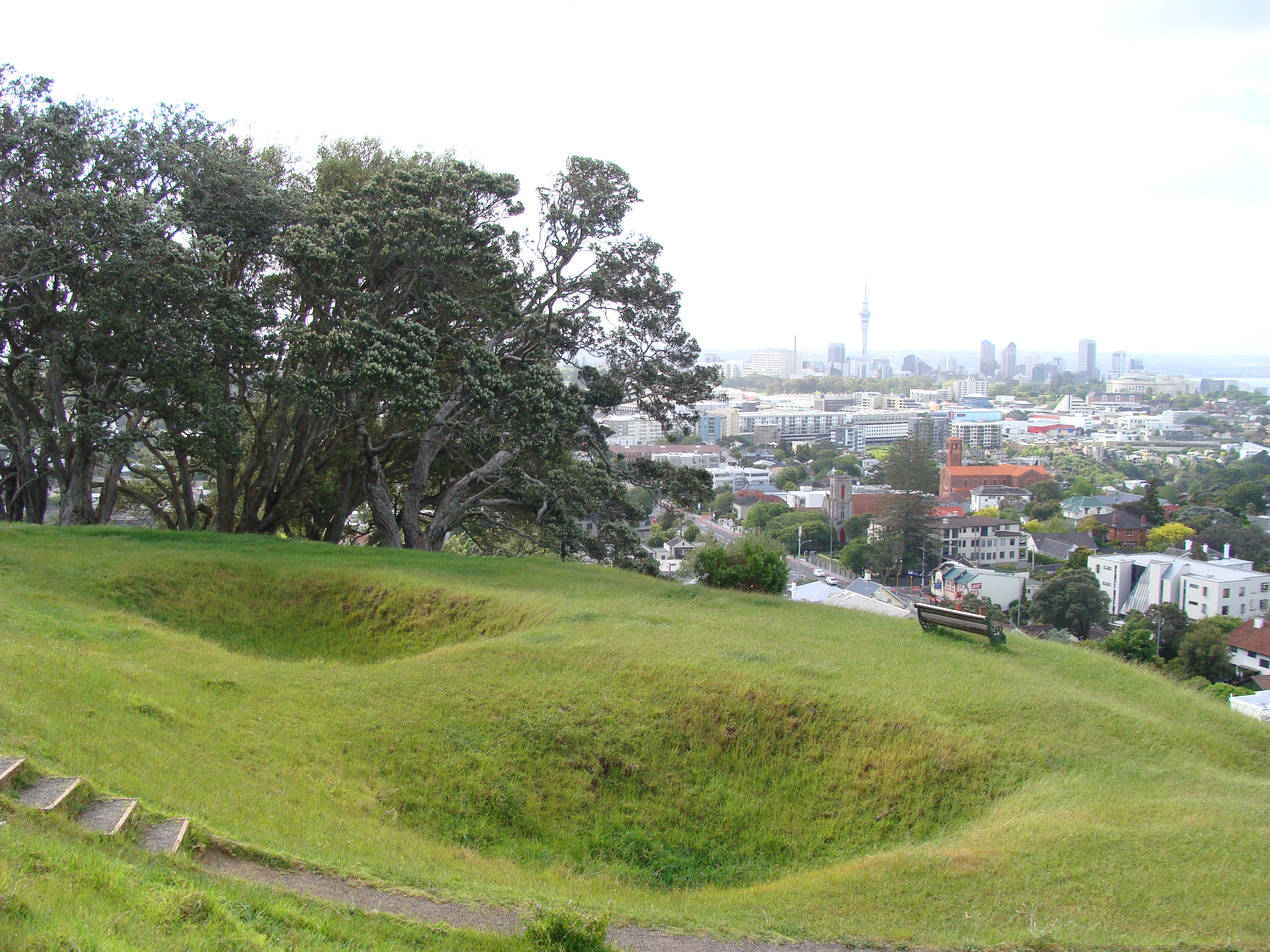 View from Mount Hobson toward the city, with Maori kumara pits in the foreground. Auckland, New Zealand.